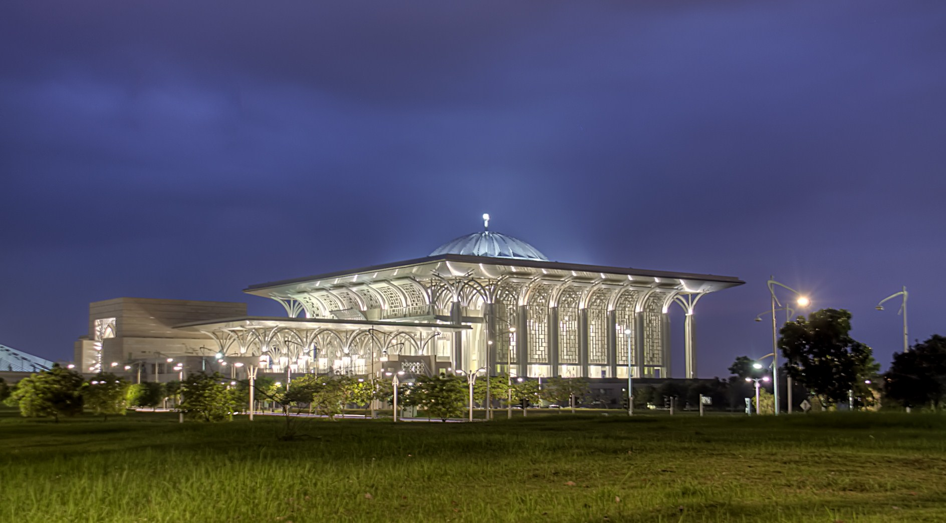 Night view of Iron mosque in Putrajaya